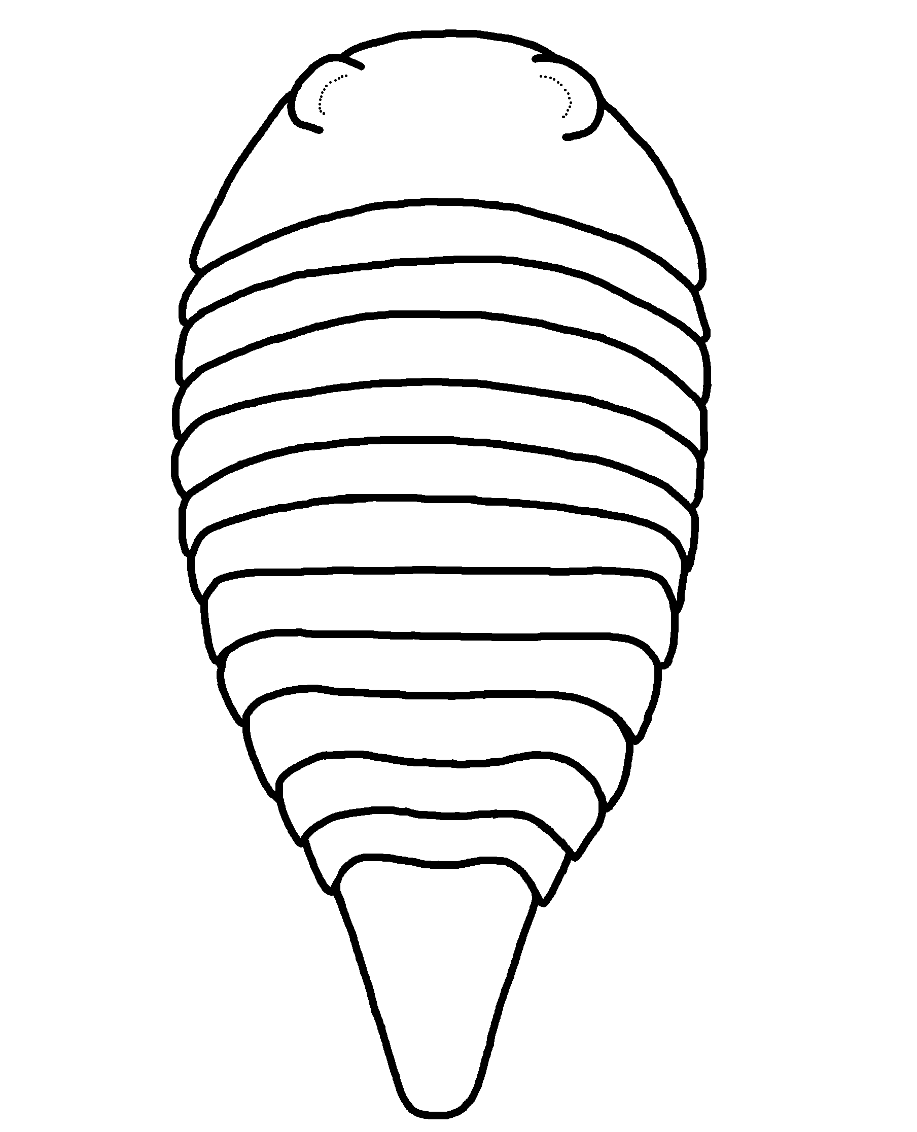 Restoration of the strabopid Paleomerus hamiltoni, based on Tetlie and Moore, 2004